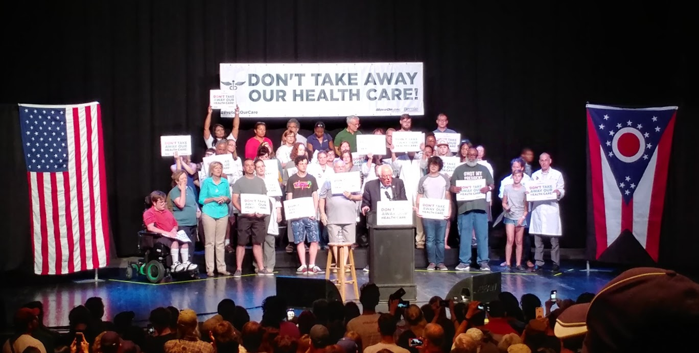 Don't Take Our Health Care Rally with Senator Bernie Sanders at Live Express in Columbus, Ohio, on June 25, 2017